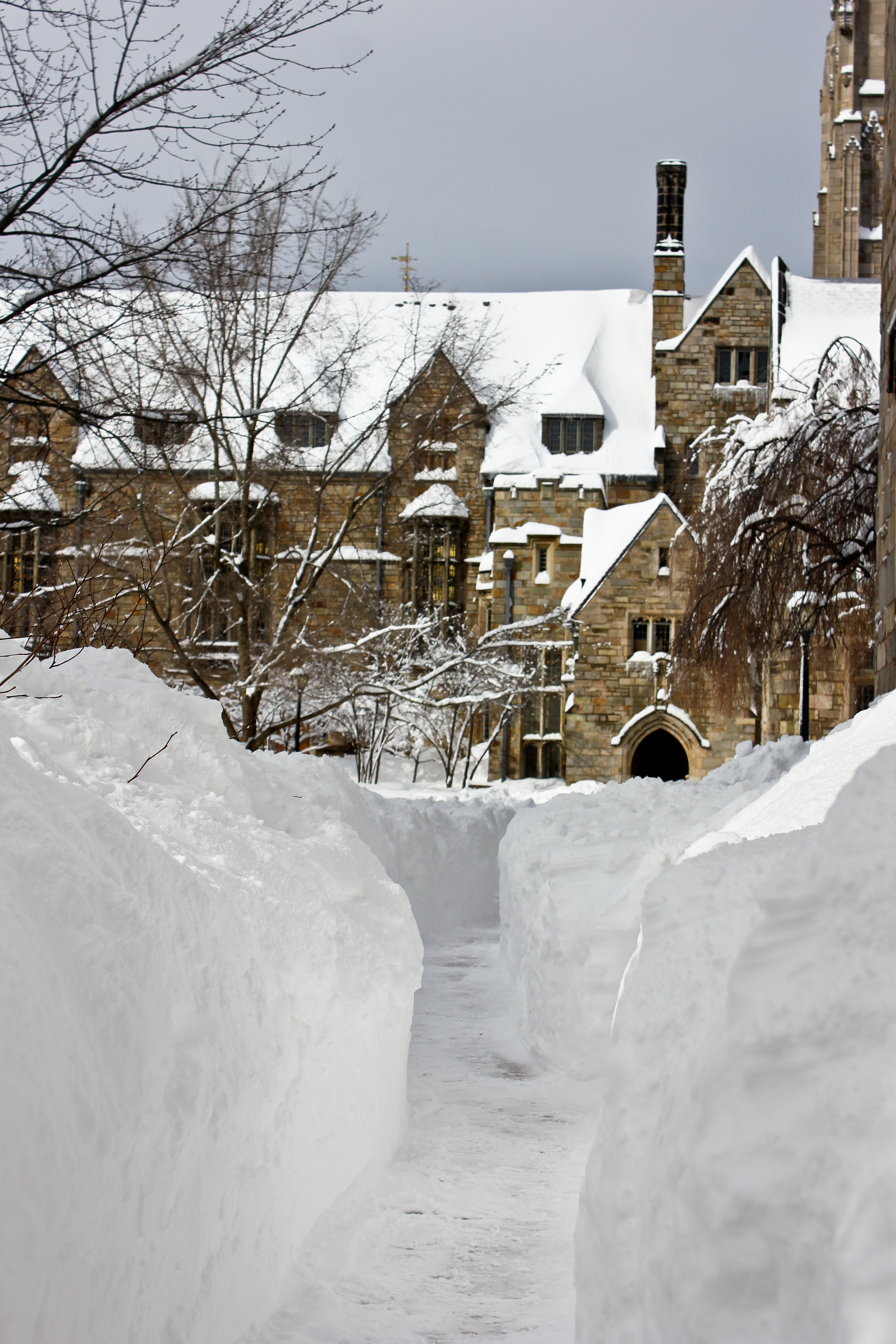 Yale University New Haven, Branford college Nemo